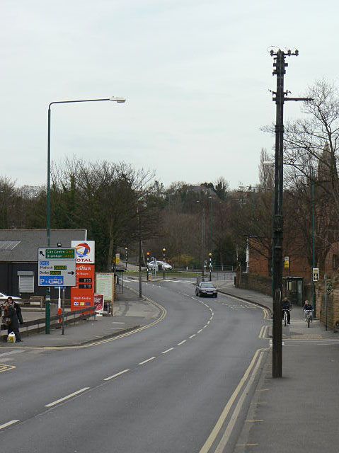 One of the few The pole on the right is one of (literally) a handful of traction poles used to support the old tramway and later trolleybus overhead wires. This one survived because it had some other cable attached to it. This has now been cut away, but presumably it's not worth the cost of removing the pole. This was Nottingham's final trolleybus route.